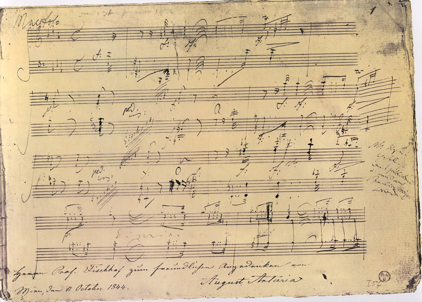 First autograph page of Ludwig van Beethoven's Piano Sonata No. 32, Opus 111